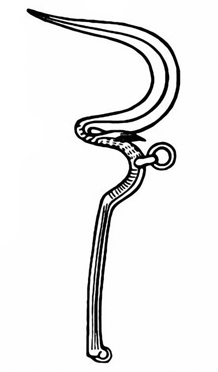 African boomerang